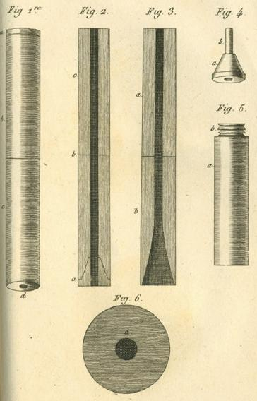 René-Théophile-Hyacinthe Laennec (1781-1826) De l’auscultation médiate.... First drawings of the stethoscope.